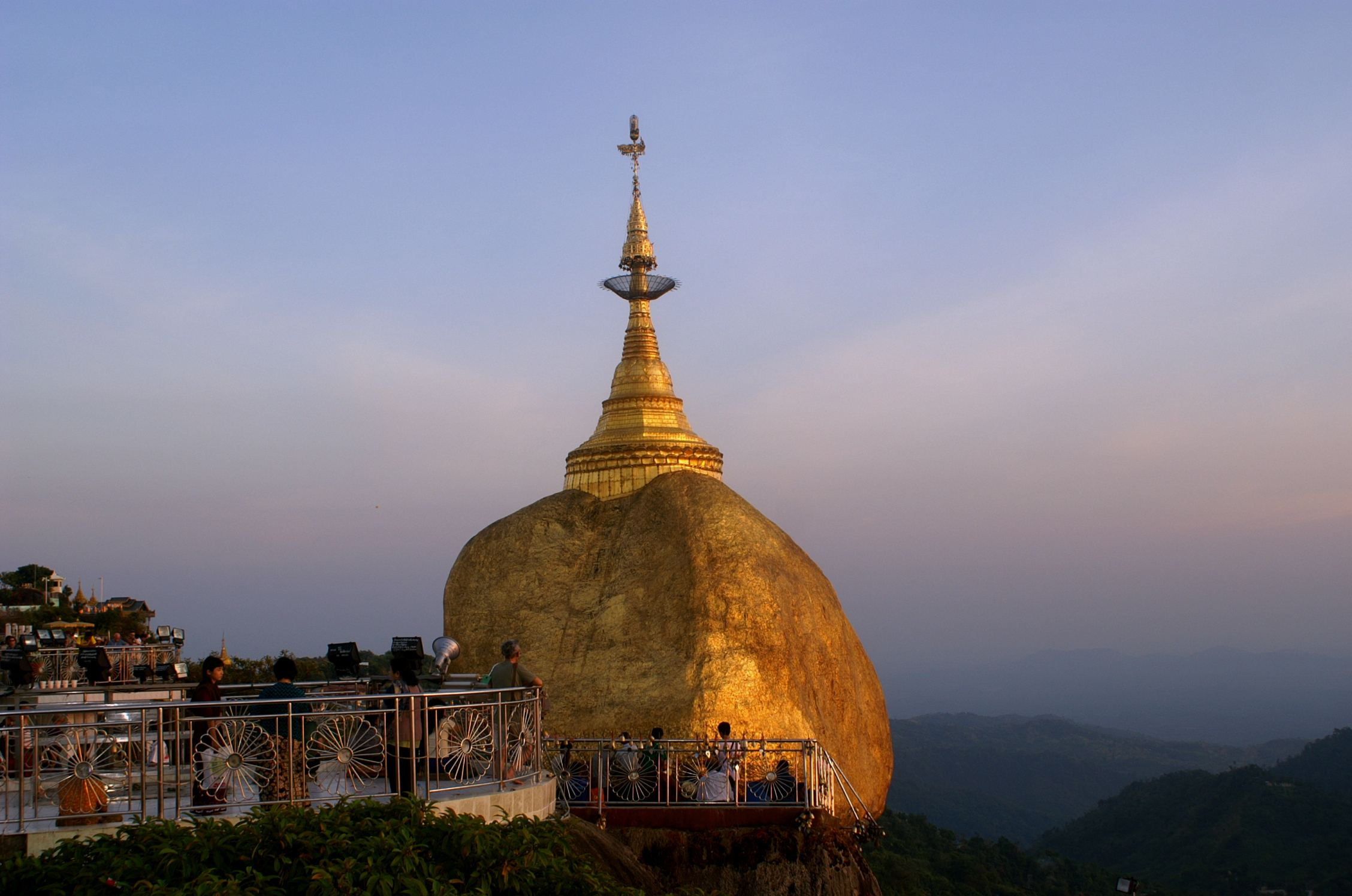 The king built a ship to carry the rock to the mountain. After the rock was in place, balanced on the hair of the Buddha, the boat turned to stone. A stone that looks a bit like a ship is enshrined in the complex. Another legend explains that the rock actually hovers in the air above the cliff. Originally there was enough room between for a chicken to walk under it, then it sunk a bit and only a partridge could walk through, and finally only a sparrow could walk through. Today it still hovers, but the space is so narrow that it can't be seen.